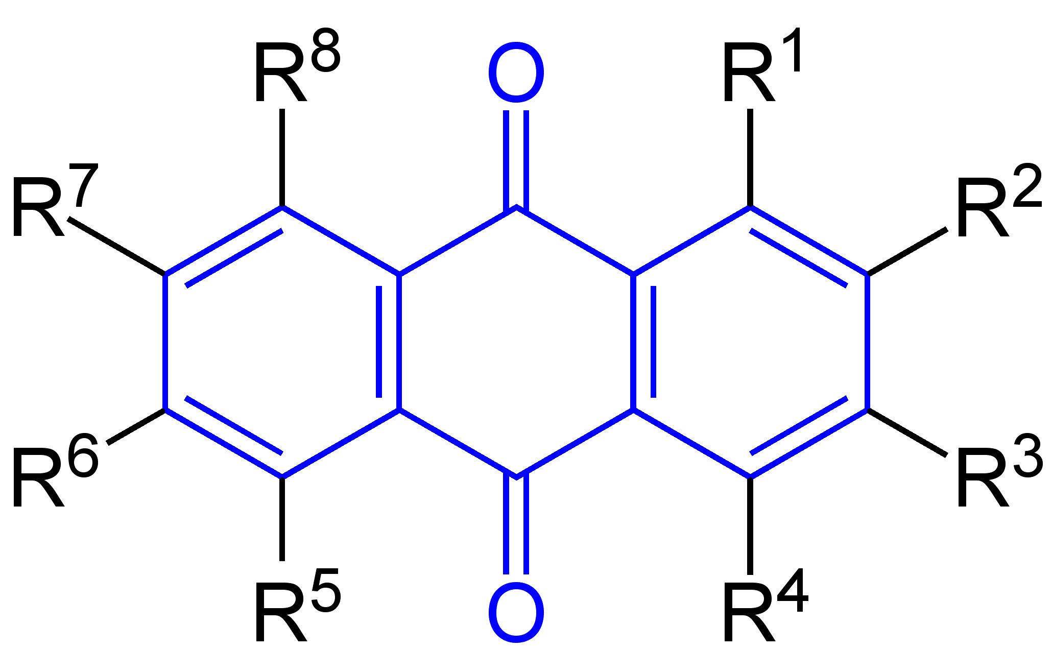 Anthrachinones_General_Formulae